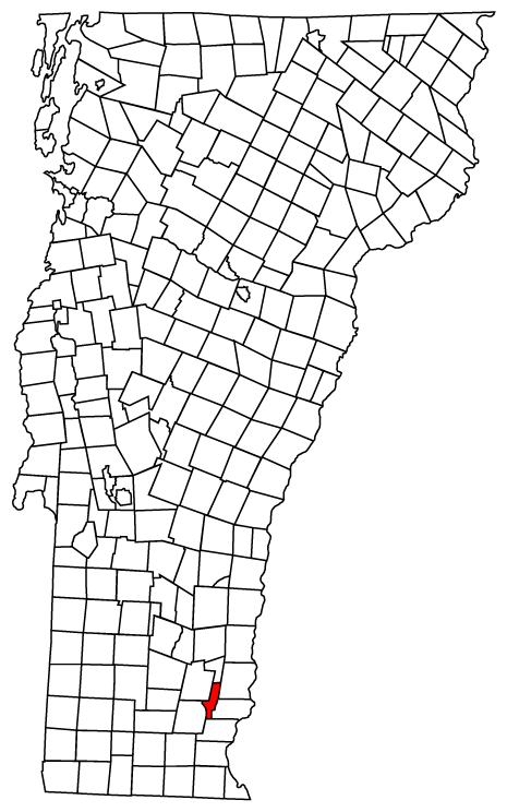 Map of Vermont towns with Brookline highlighted